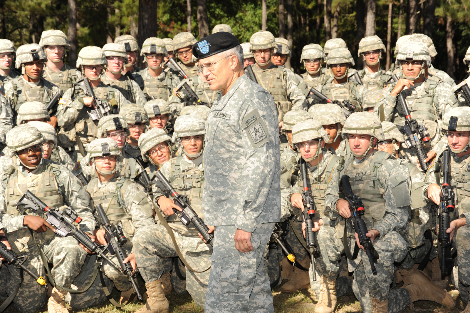 Army Chief of Staff Gen. George W. Casey Jr. talks to Soldiers with C Company, 1st Battalion, 19th Infantry Regiment, 198th Infantry Brigade, about Sgt. 1st Class Jared Monti, who received the Medal of Honor posthumously, and the warrior ethos. Casey visited Fort Benning, Ga., Oct. 20, to observe Infantry training, view BRAC construction progress and tour the National Infantry Museum for the first time. After the museum tour, Casey re-enlisted five Soldiers and their families in front of the museum's 'Follow Me' statue.